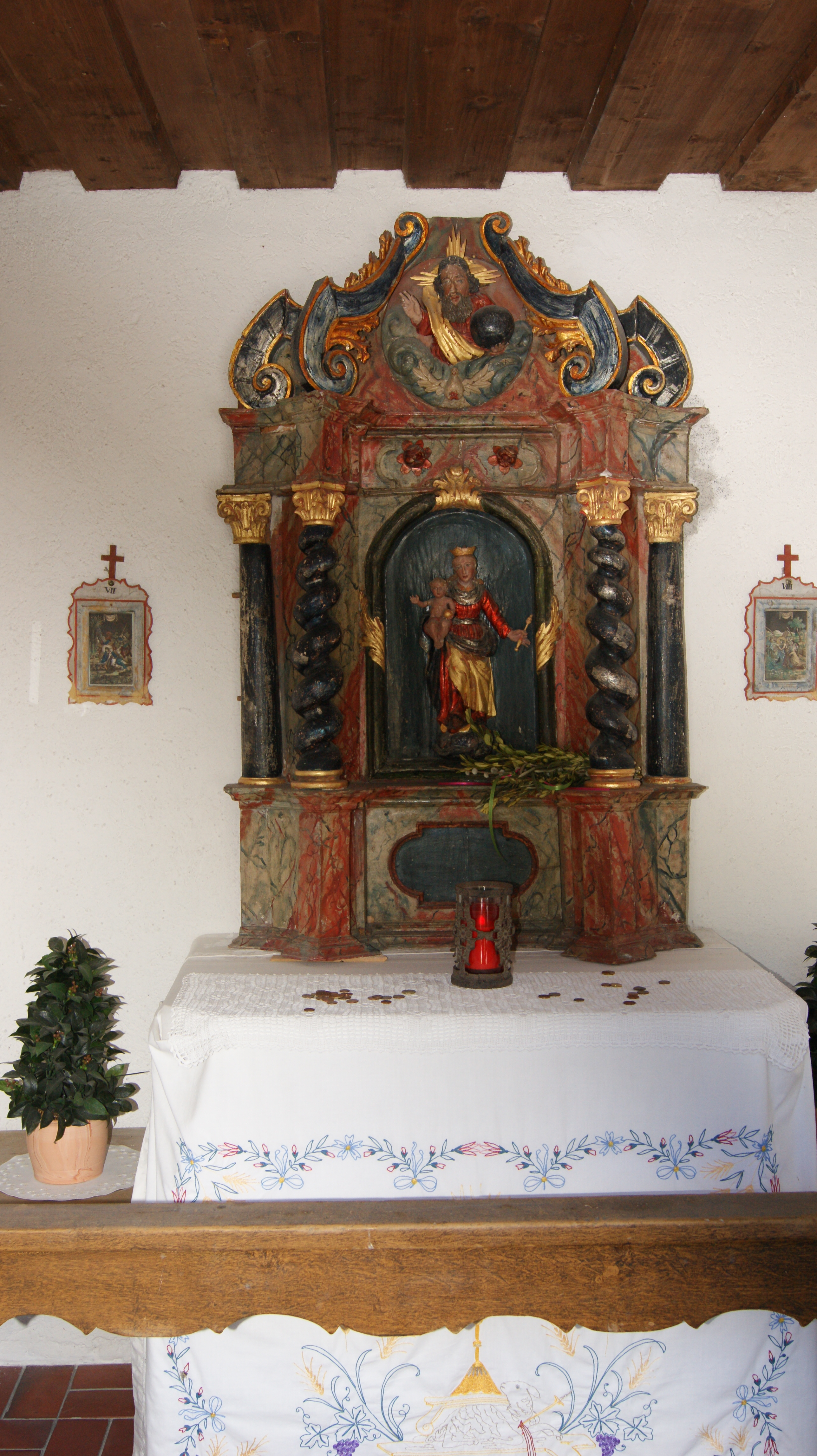 Chapel to the saints Florian and Agatha in the district Omesberg in Lech